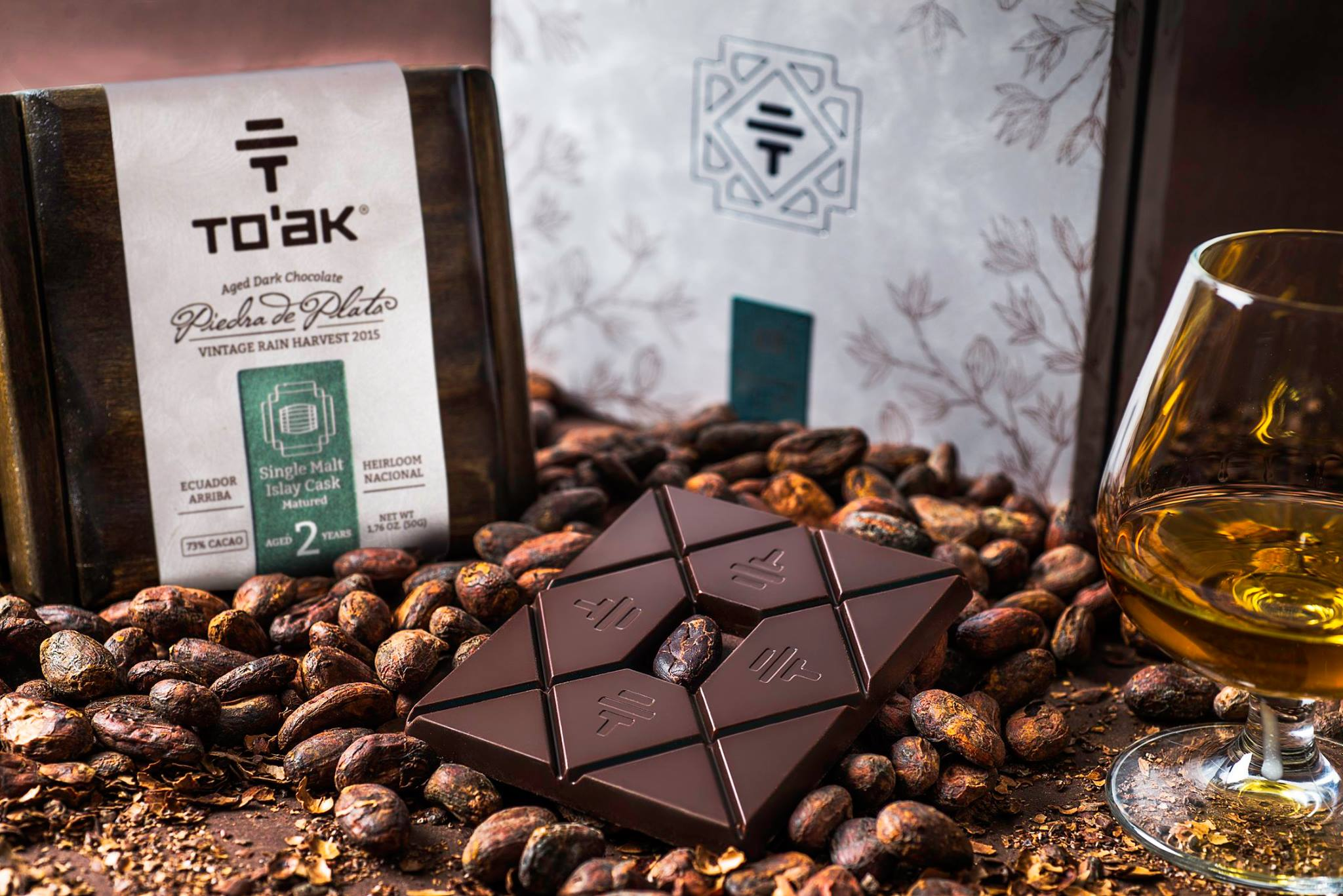 To'ak Chocolate product example